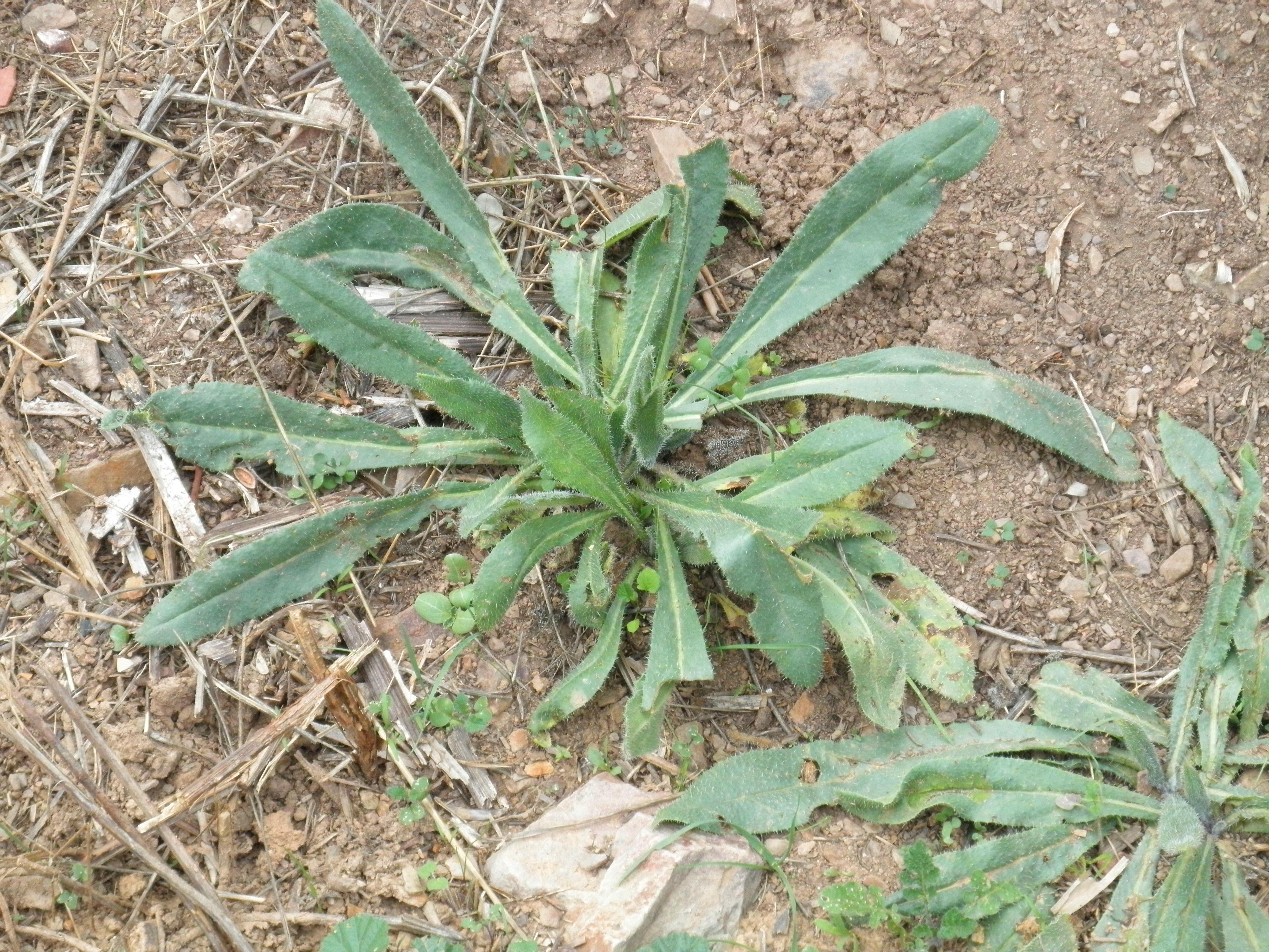 Echium plantagineum basal leaves rosette first year, Sierra Madrona, Spain